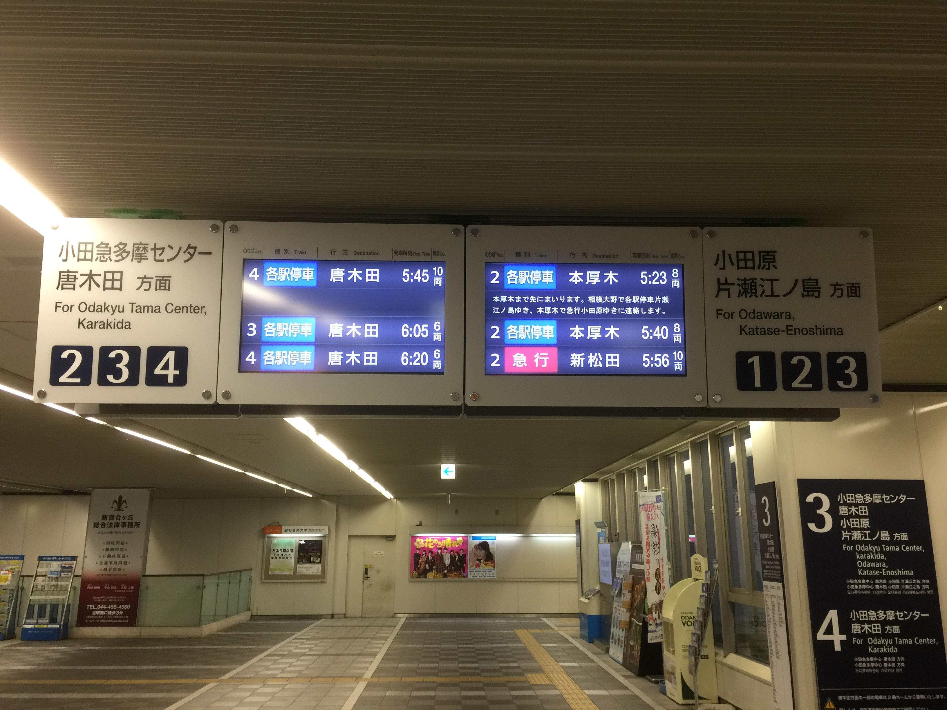 Sinyurigaoka